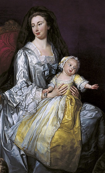 From The Family of Frederick, Prince of Wales